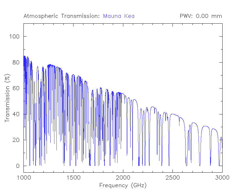 Plot of the zenith atmospheric transmission on the summit of Mauna Kea throughout a range of 1 to 3 THz at a precipitable water vapor level of 0.001 mm. Created using the CSO Atmospheric Transmission Interactive Plotter at the submillimeter wave astronomy site of caltech [1]